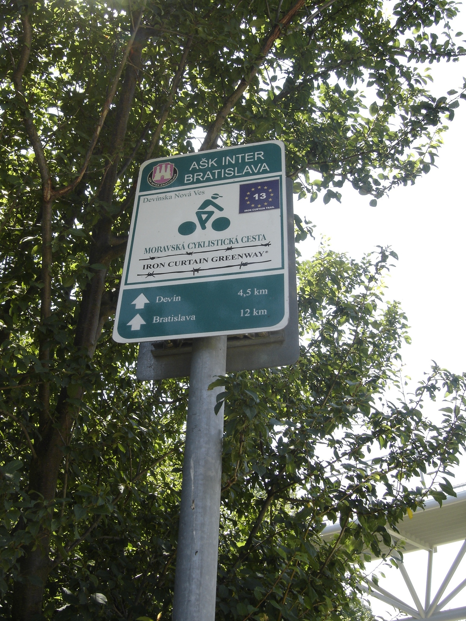 Bridge between Devinska Nova Ves (Bratislava, SK) and Schlosshof (A)